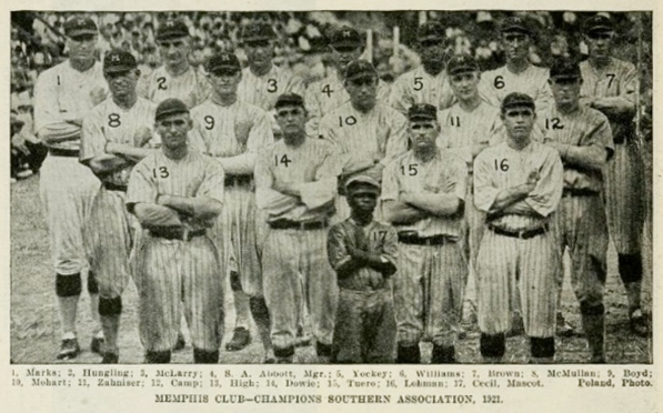 The 1921 Memphis Chicks, a minor league baseball team from Memphis, Tennessee